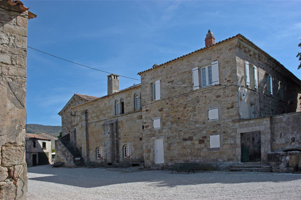 Saint-Michel de Grandmont priory. France